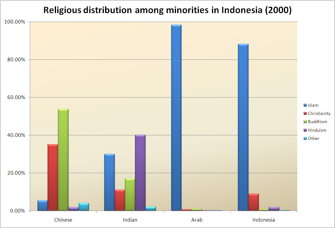 Suryadinata, Leo (2008) Ethnic Chinese in Contemporary Indonesia, Singapore: Chinese Heritage Centre and Institute of Southeast Asian Studies, p. 30 ISBN: 9789812308351.